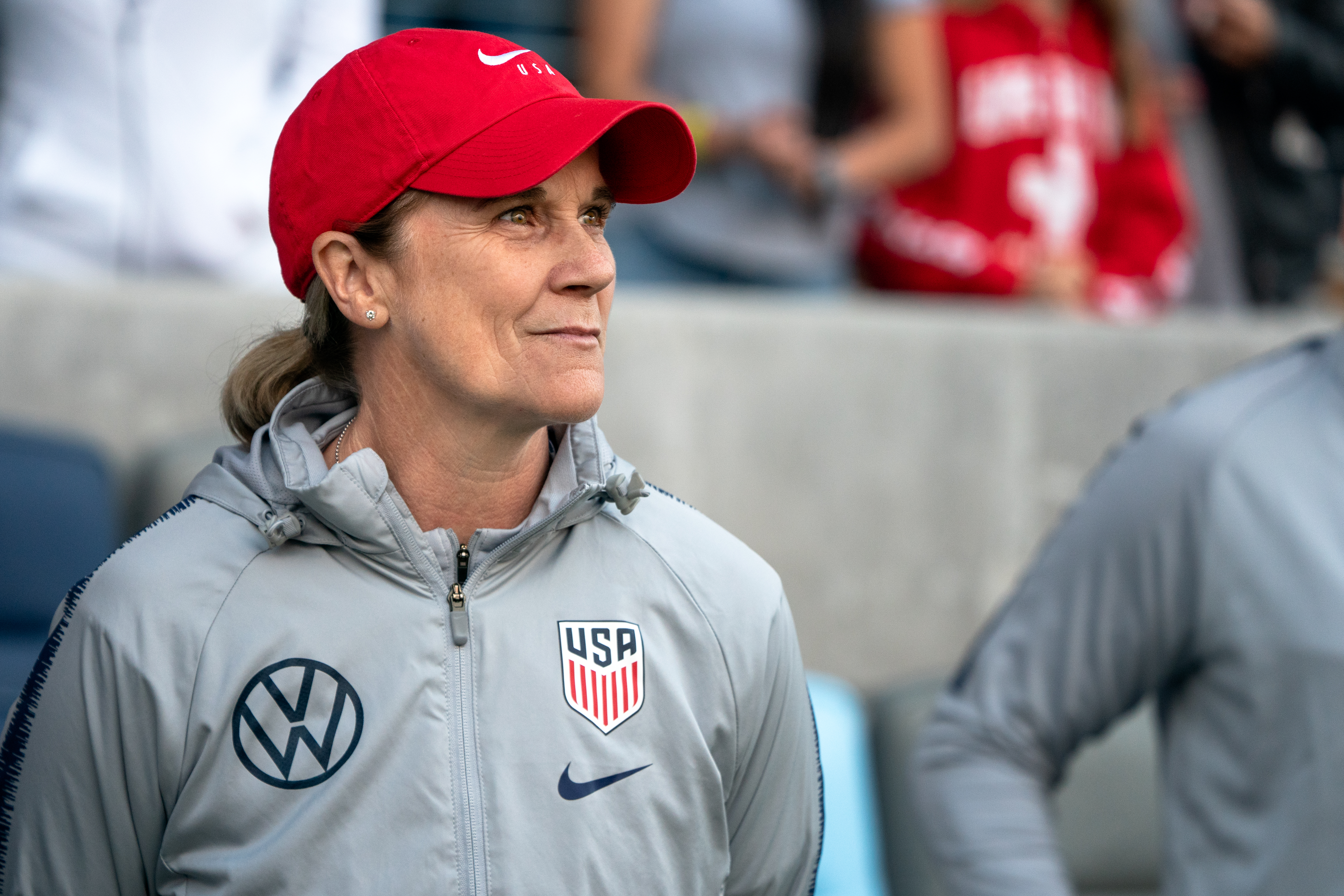 Jill Ellis, USWNT coach at a Victory Tour game held at Allianz Field in St Paul, Minnesota